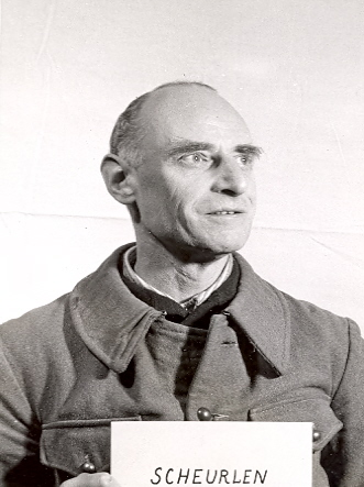 Heinz Scheurlen, the last German Commander for the occupied territories of Greece during WW II as a witness during the Nuremberg Trials.